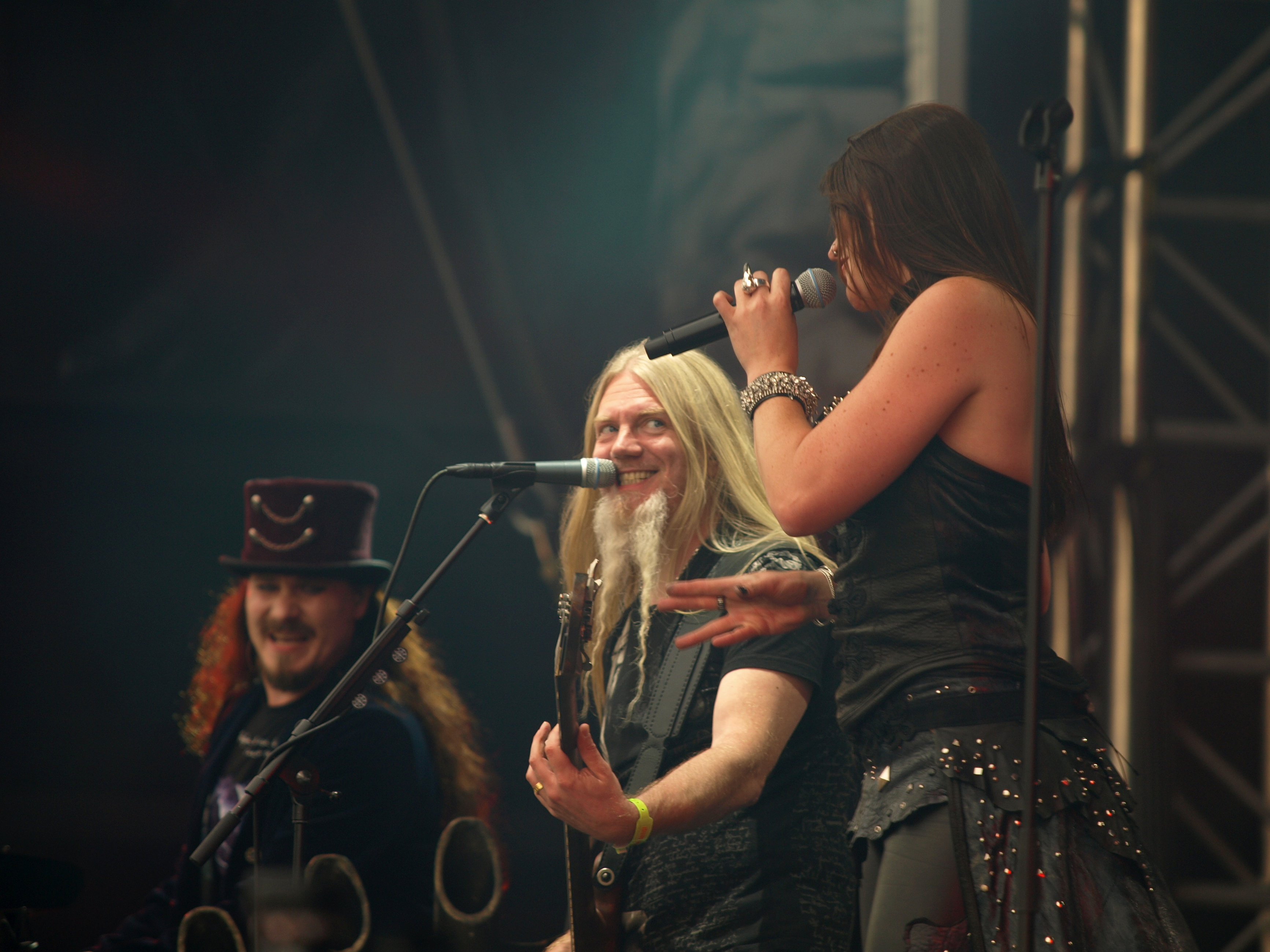 Finnish band Nightwish at Tuska Open Air 2013